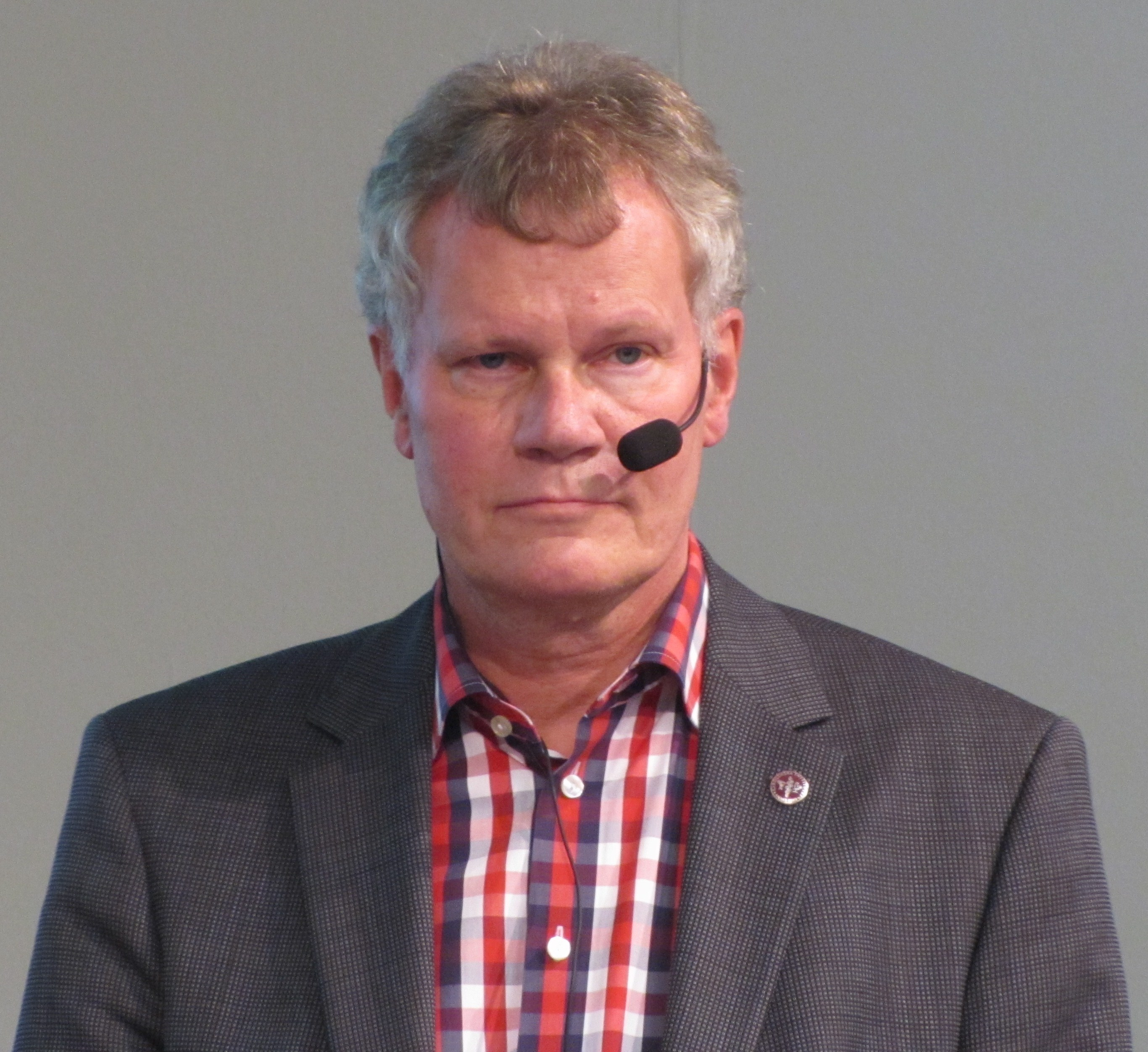 Swedish periodontist and professor of dentistry Björn Klinge at the 2010 Göteborg Book Fair.